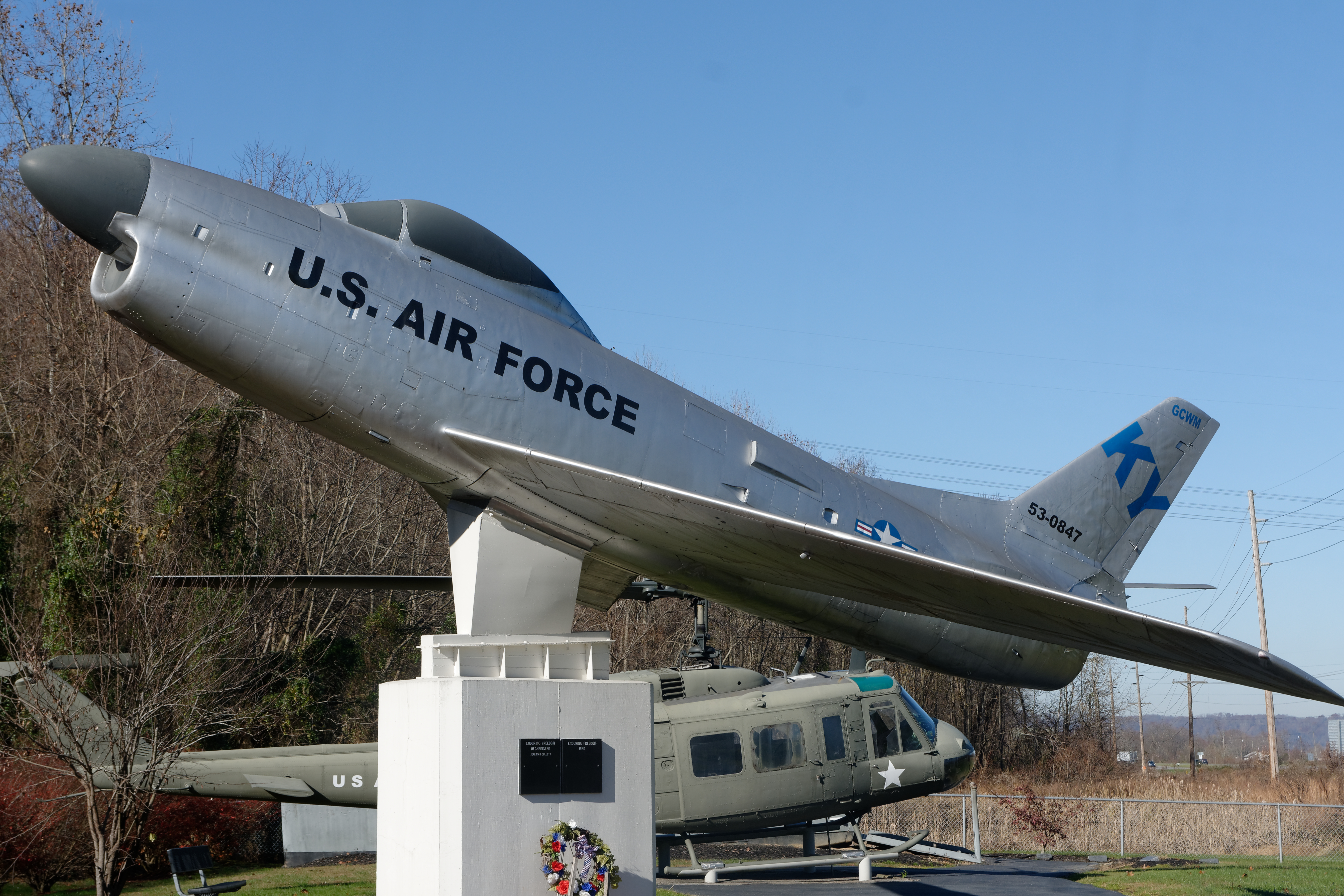 F-86L on display in Greenup, Kentucky, U.S.